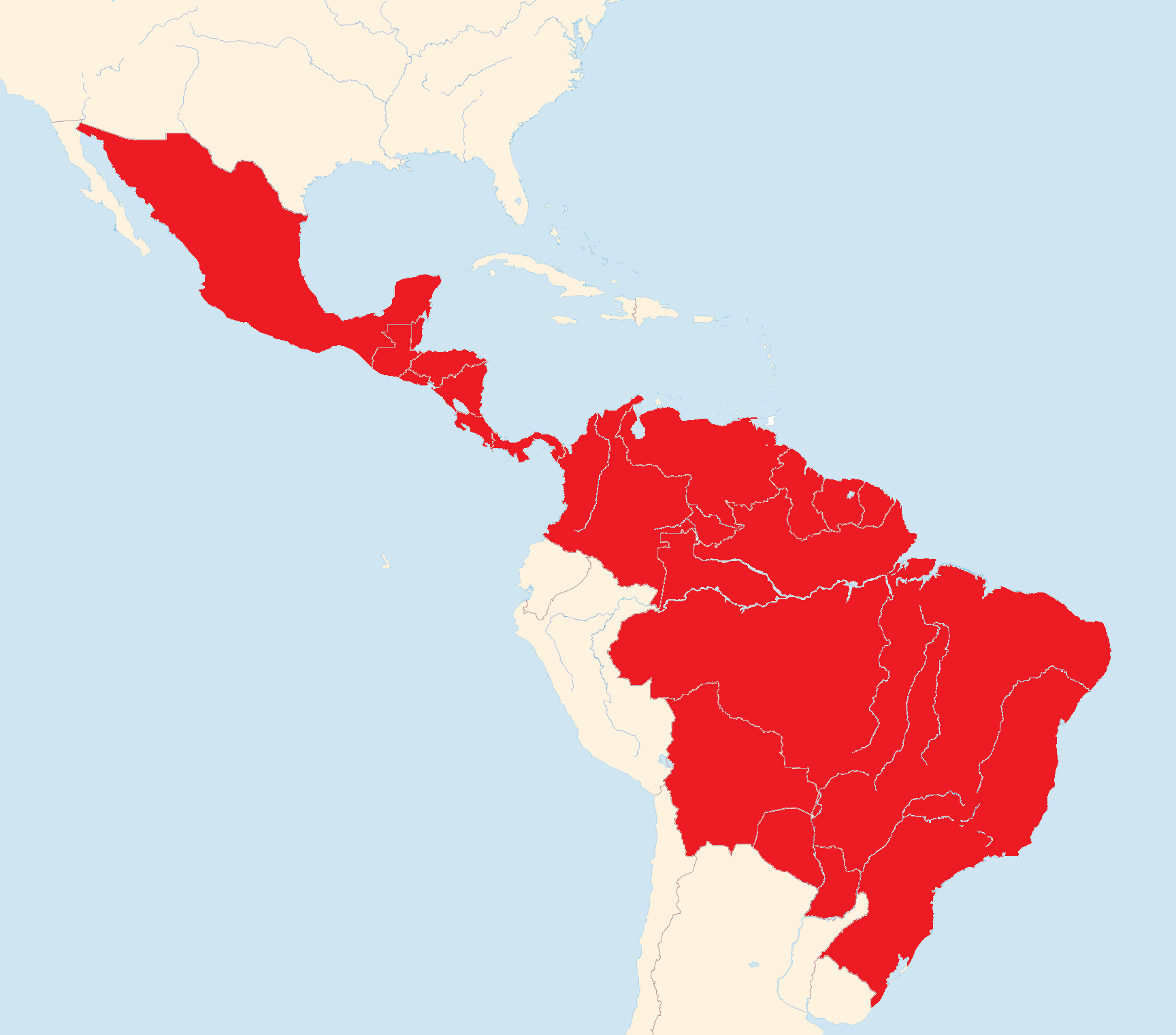 Distribution of Iguana iguana in the America's. Islands of the Carrabean not included (other map), only the countries are marked as an indication, not the exact national distribution. Source: The Reptile Database: Website (november 2011)